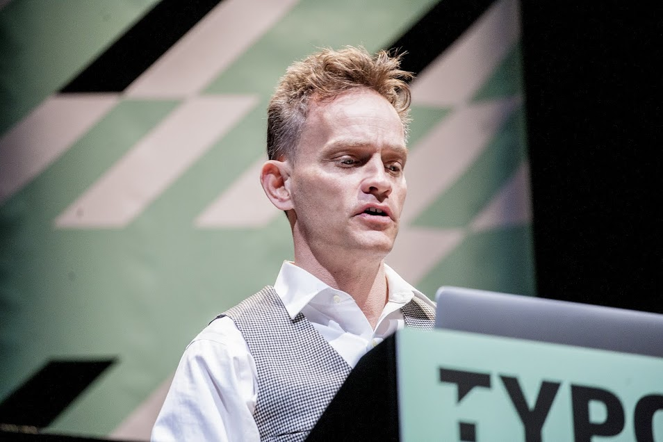 Elliott Earls at TYPO San Francisco 2014.